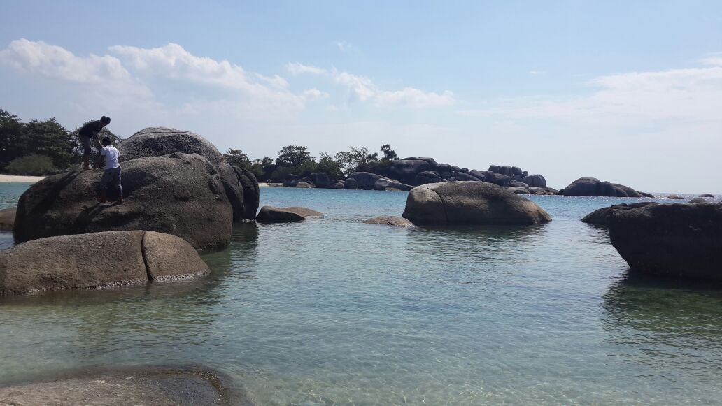 Climbable rock formations of Tanjung Tinggi Beach, Belitung Island, Indonesia